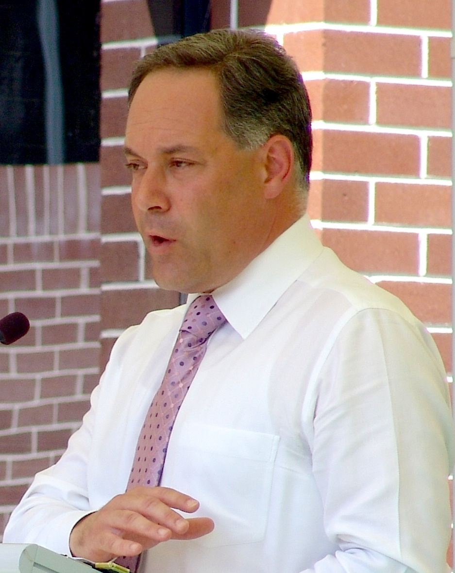 New South Wales Premier Morris Iemma in February 2006